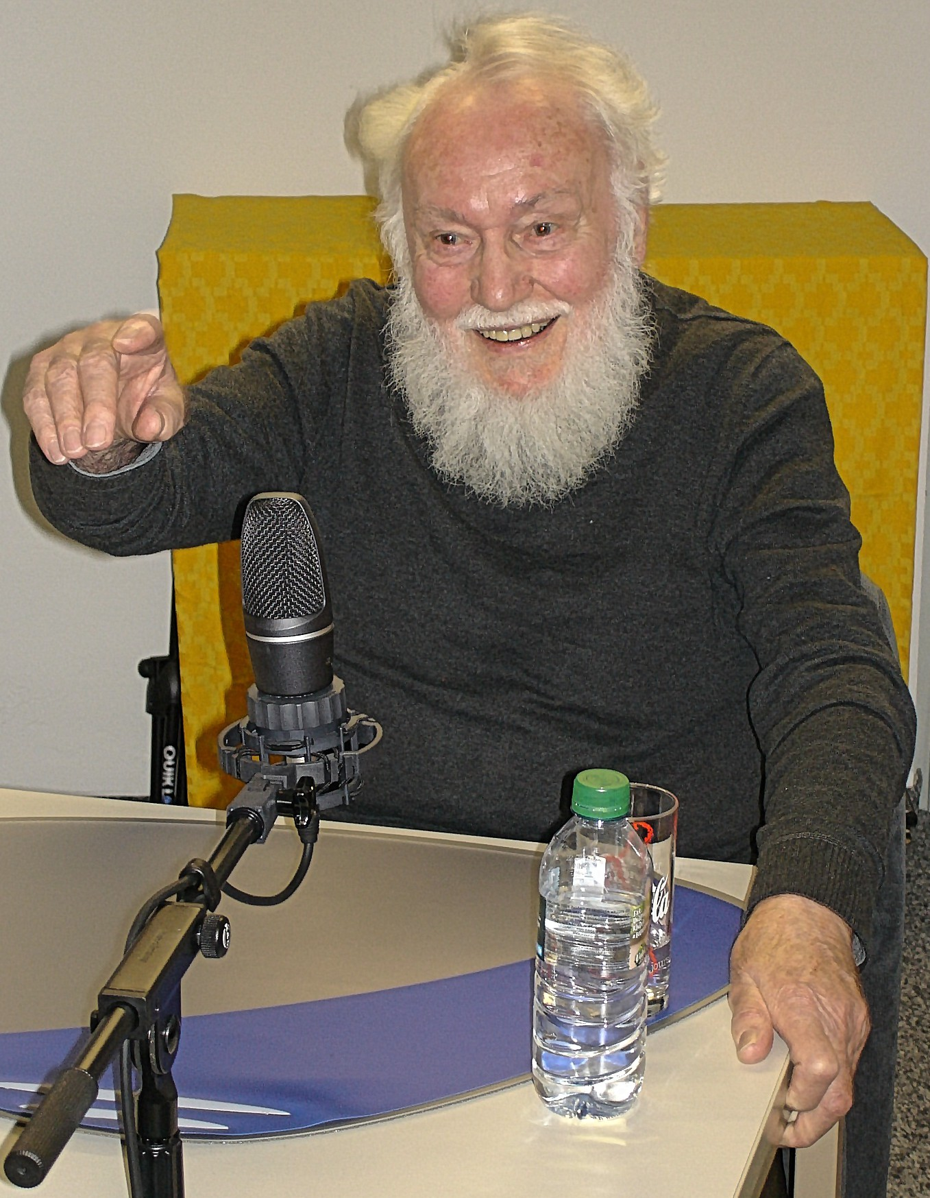 Ernst Pilick during a radio recording